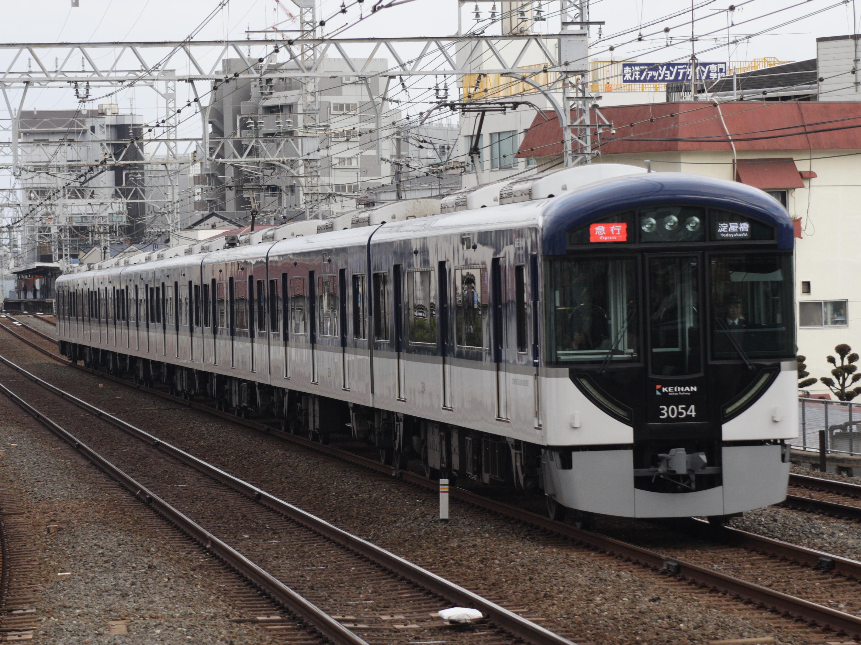 Keihan Electric Railway 3000 series EMU set 3004 approaching Morishoji Station on an express service